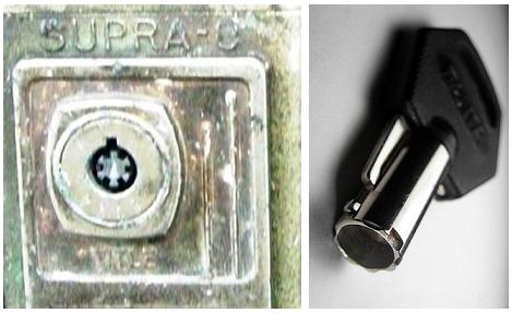 A tubular key.